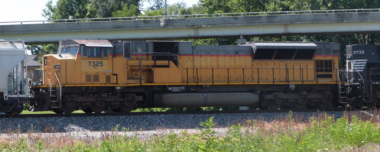 NS SD90/43MAC 7325 in Bellevue, OH